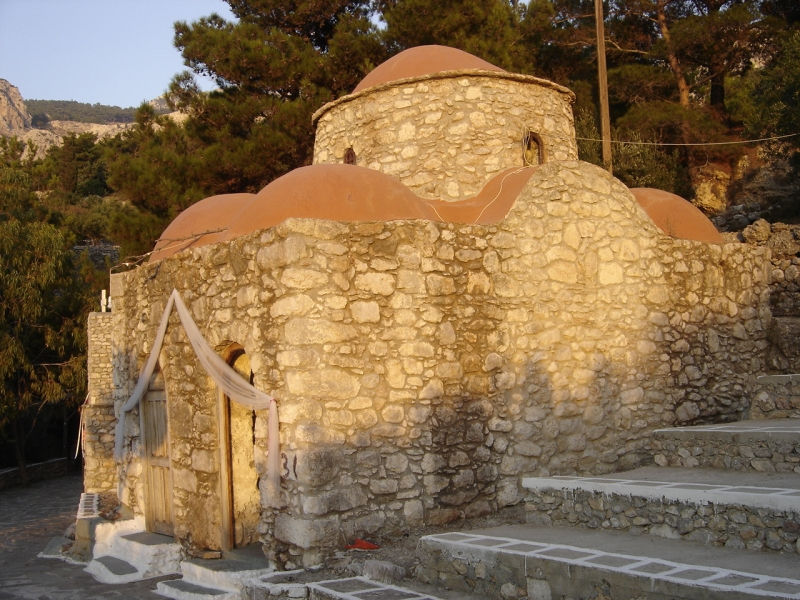 Agios Georgios Church, Lefkos, Karpathos Island, Greece